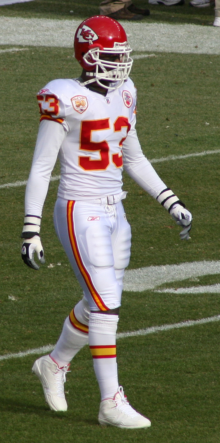 Demorrio Williams, a player on the Kansas City Chiefs American football team.